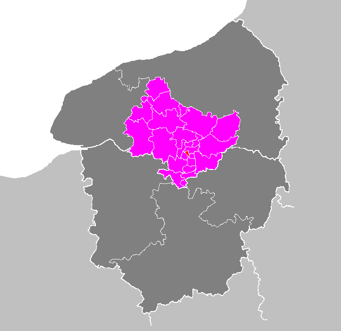 Maps of arrondissements and cantons of France: Arrondissement de Rouen - Canton du Petit-Quevilly.PNG